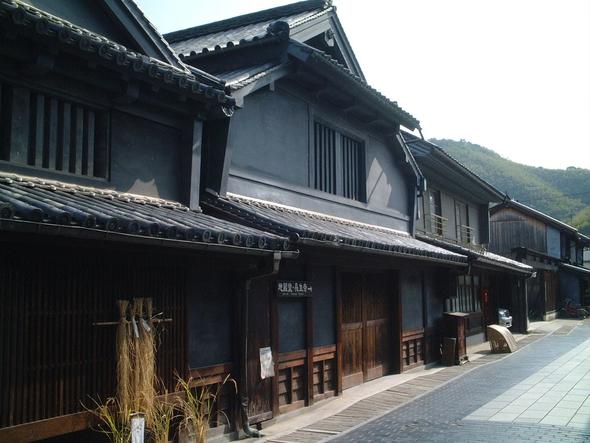 Taketsursu House (old brewery) at Takehara city, Hiroshima, Japan.